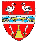 From description given by English history guides. I am not sure if the London Stone was wholly of gold including its plinth which is one interpretation. Perhaps just the top stone.